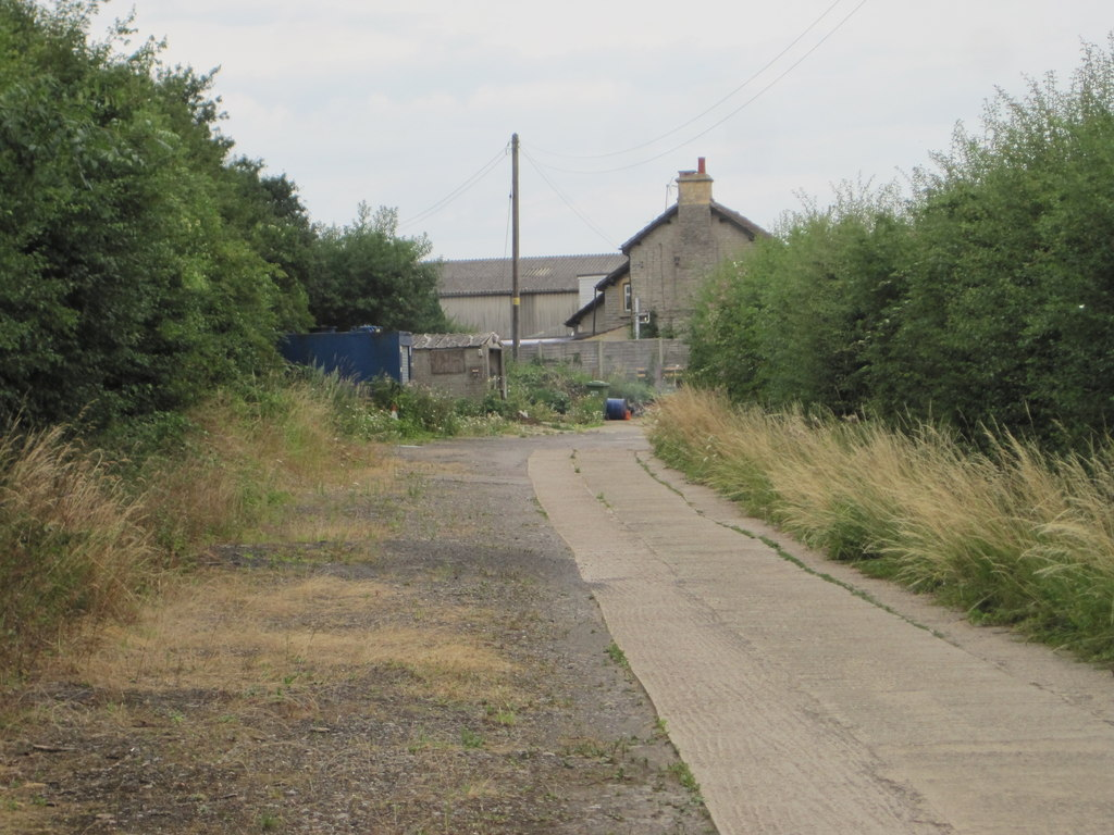 Hinton railway station (site), WorcestershireOpened in 1864 by the Midland Railway on the "Gloucester Loop" line from Evesham to Gloucester, this station closed in 1963. View along the approach road towards the forecourt. The railway ran left to right behind the building.